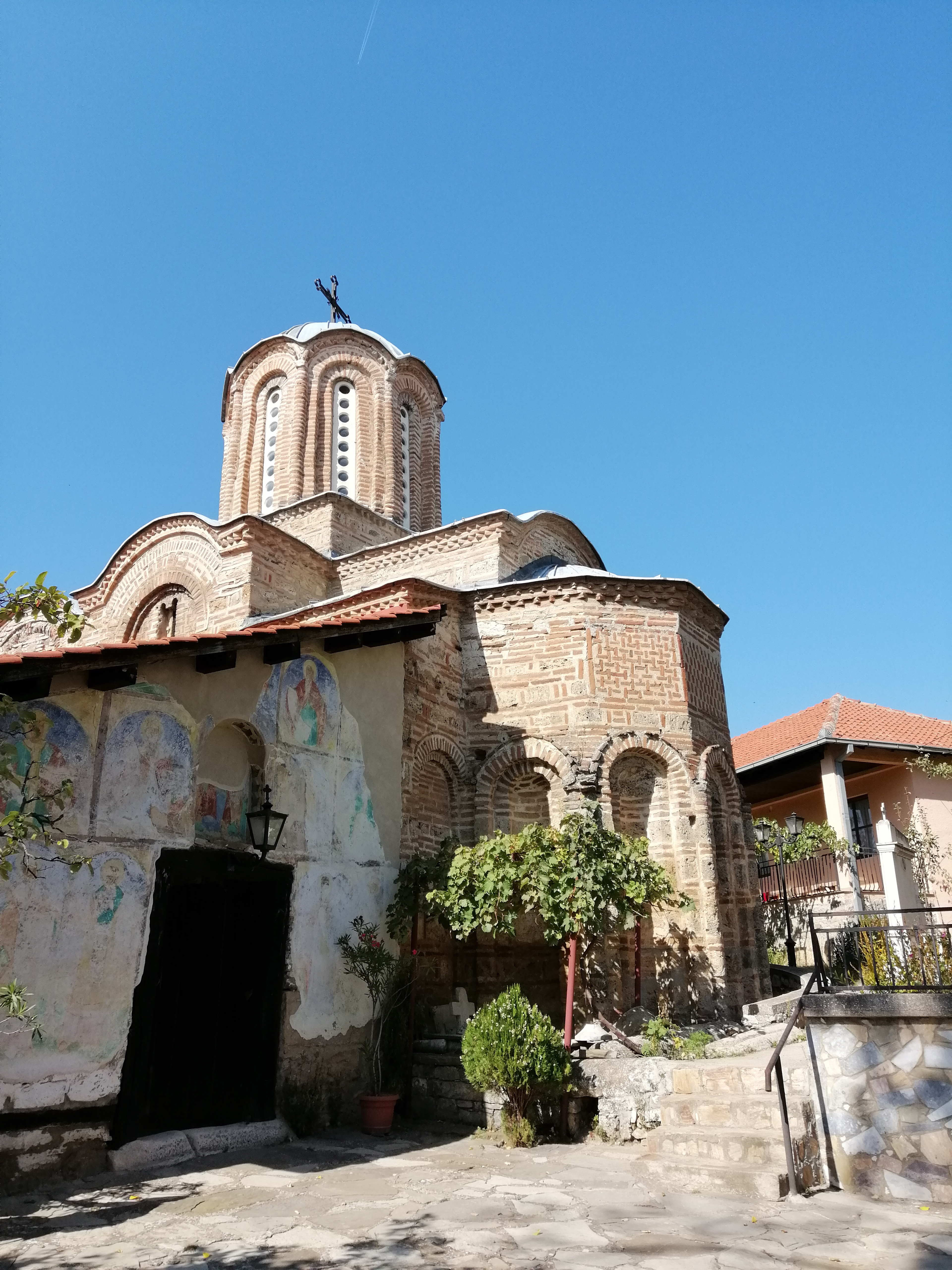 View of the Church of the Presentation of the Theotokos in the village Kučevište